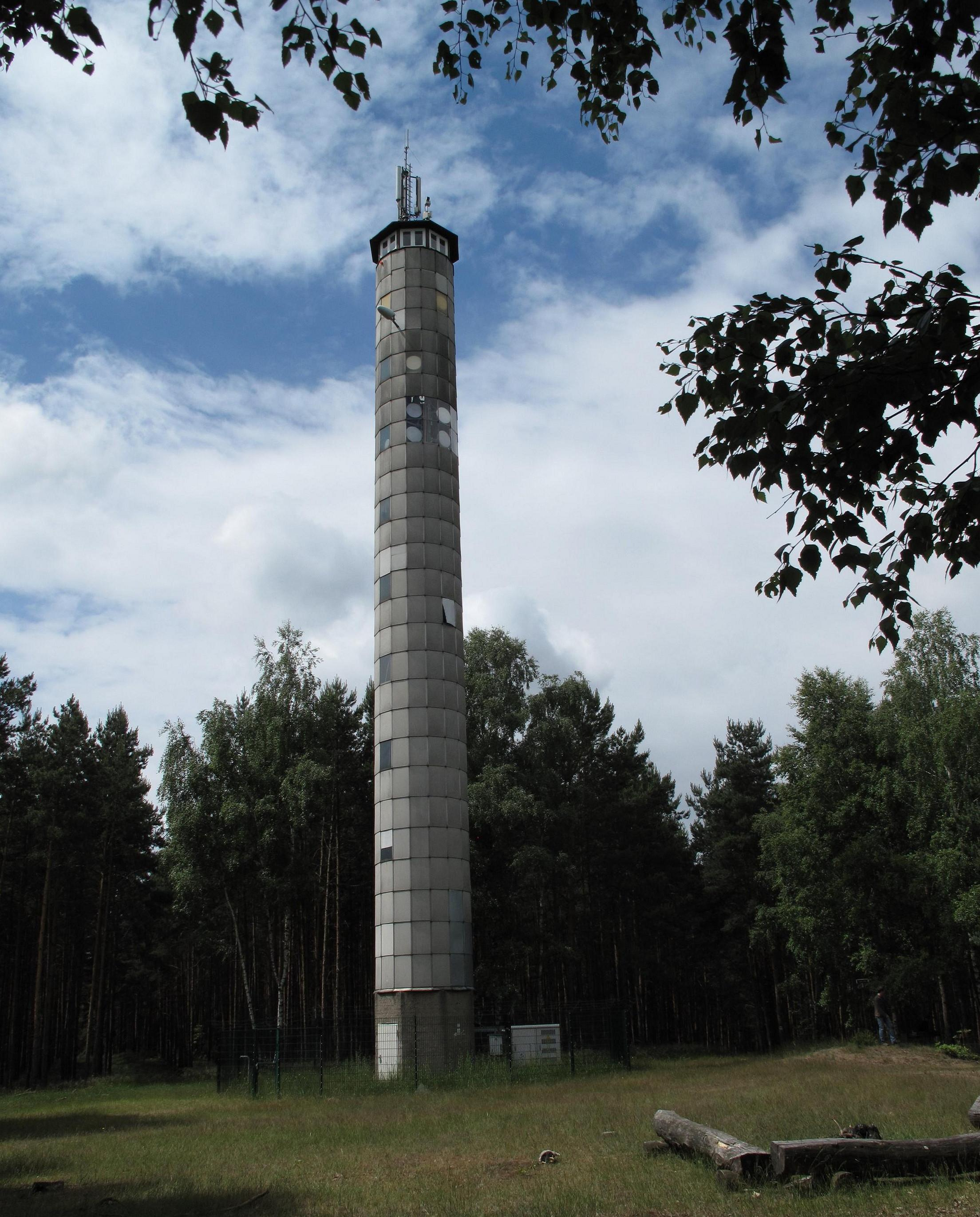 The Wietkiekenberg (124,7 m) is the highest elevation of the Zauche, a plateau, which was formed at the ending of the last glacial period. On the top there is a fire watchtower (30 m). The hill is situated in Ferch, a part of the municipality Schwielowsee in the district Potsdam-Mittelmark, state Brandenburg, Germany.